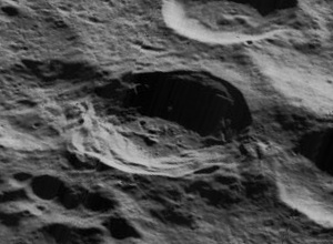 Oblique view of Innes, on the far side of the moon, facing west.